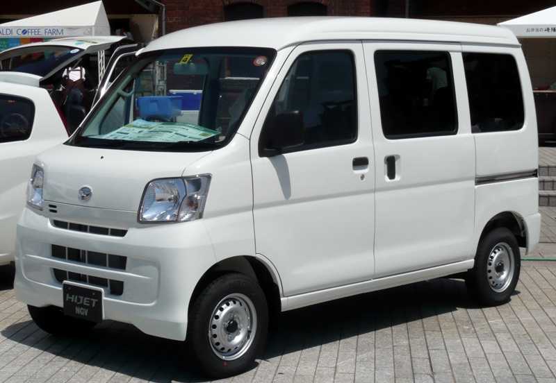 Daihatsu Hijet CNG.